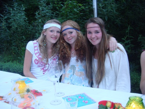 Rosa Floor and Tesse by a party.